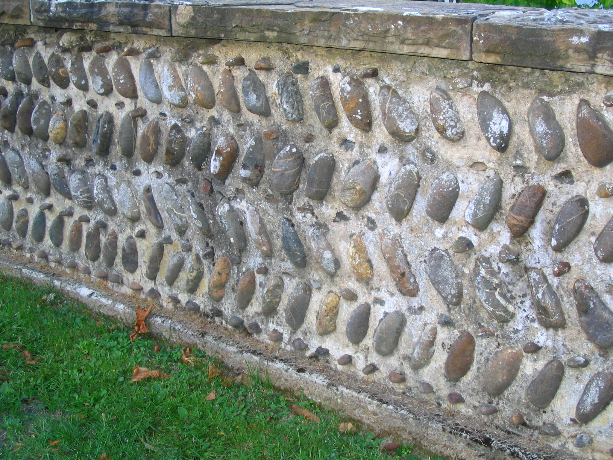 Mur de galets dits "en feuille de fougère" - Thèze, Béarn - France Detail of a stone wall in the French Pyrenees. Auteur/author: P.Charpiat - 2006